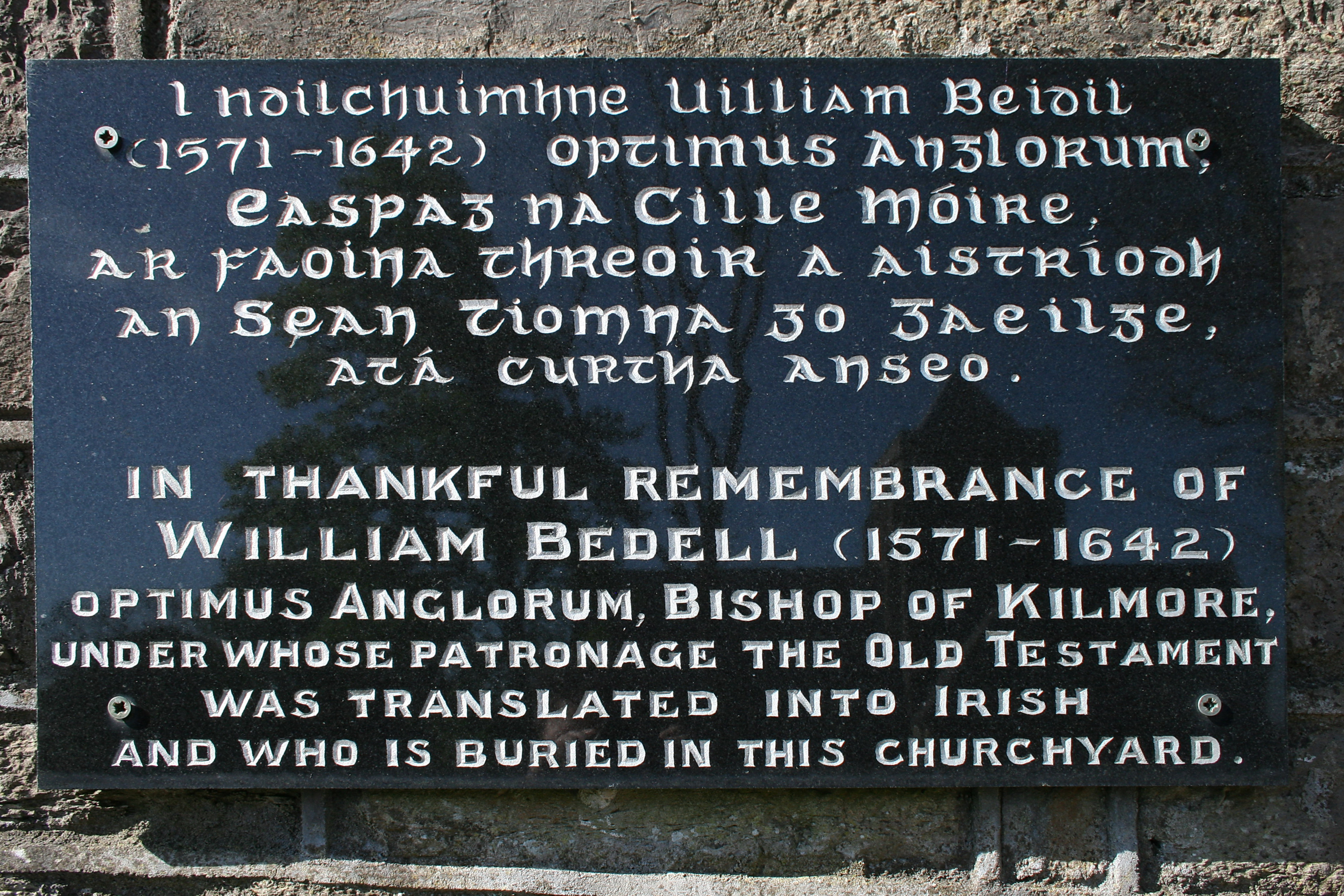 William Bedell plaque, St Fethlimidh's Cathedral, Kilmore, County Cavan, Ireland.